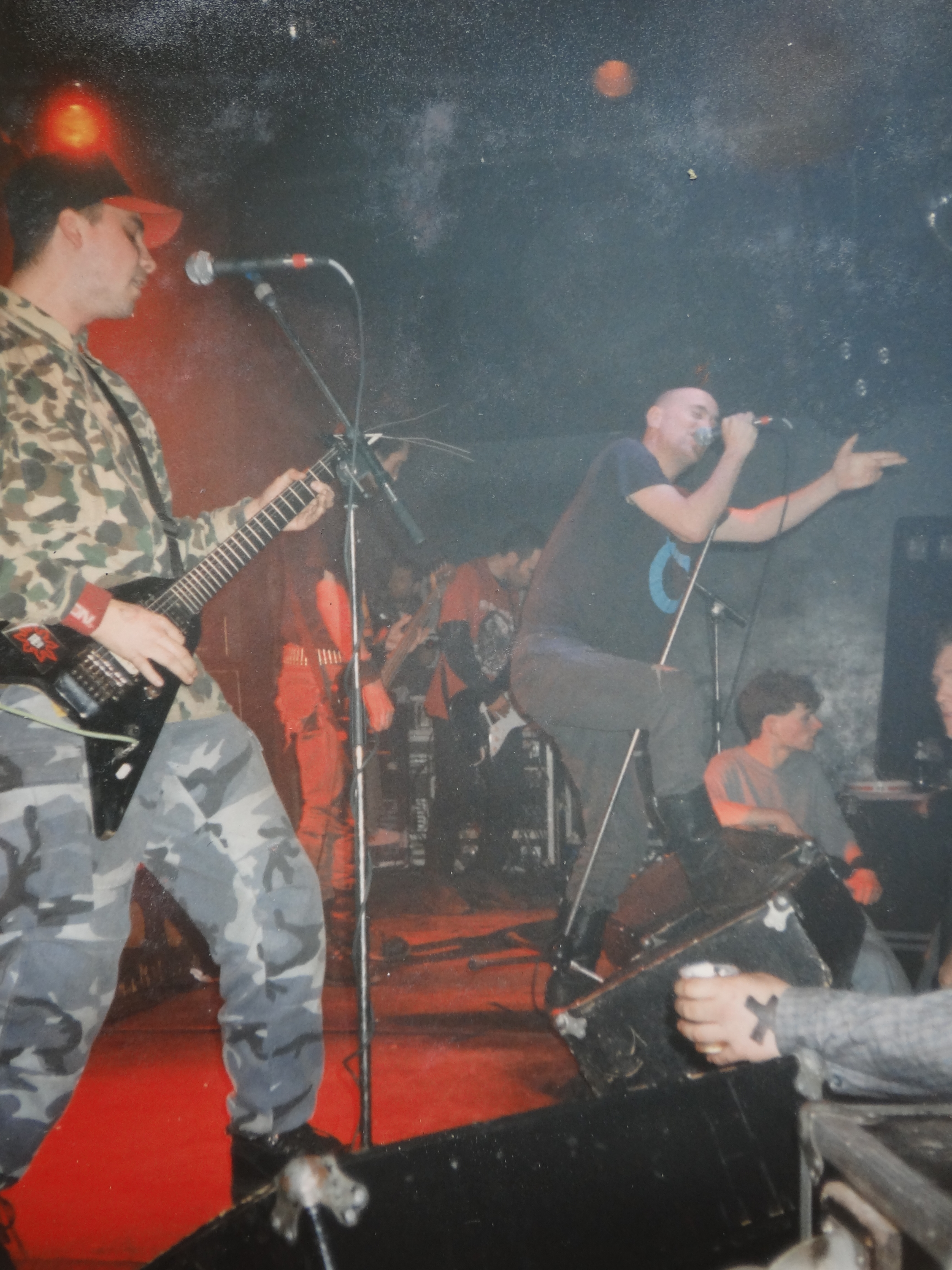 Punk rock band CHAOS UK, live in Arnhem, Willemeen 1995